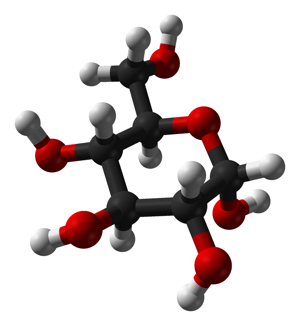 Ball-and-stick model of the α-D-glucose molecule, C6H12O6, as found in the crystal structure. X-ray diffraction data from Acta Cryst. (1979). B35, 656-659. Model constructed in CrystalMaker 8.1. Image generated in Accelrys DS Visualizer.